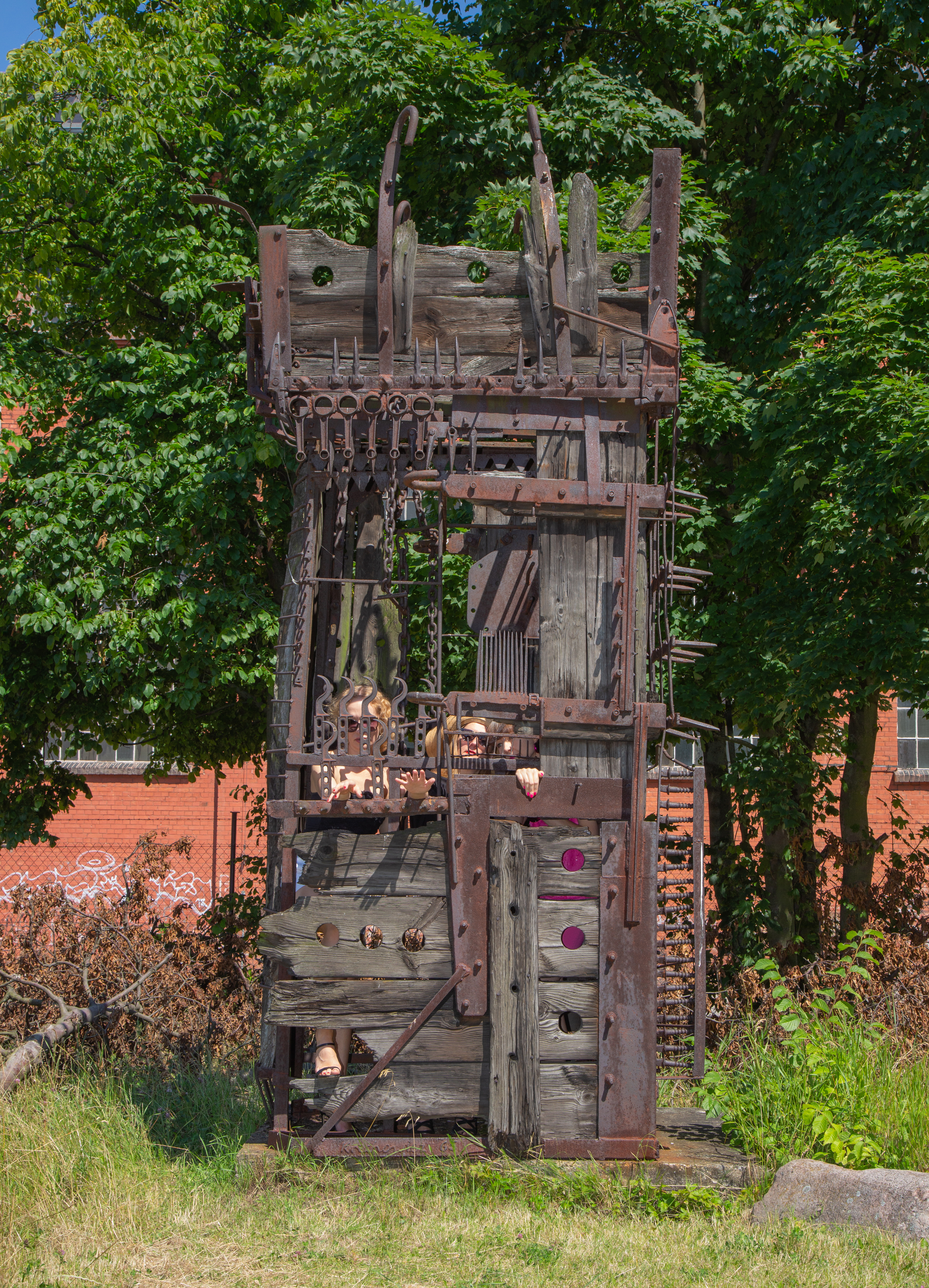 A 3.5-meter-high spatial form made by Jerzy Krechowicz (collaborators: J. Lemańczuk, H. Borowicz) during the 1st Biennial of Spatial Forms in Elbląg (1965). Originally, it was placed inside the ruins of the former monastery building. Currently, in the courtyard of the Gallery EL, from Wałowa street side. Commonly known as "the torture machine". Inside the sculpture visual artists: Agata Zbylut and Iwona Demko with curator Karina Dzieweczyńska, while working on the project entitled "Congress of dreamers / Kongres Marzycielek” carried out at the Art Center Gallery EL.